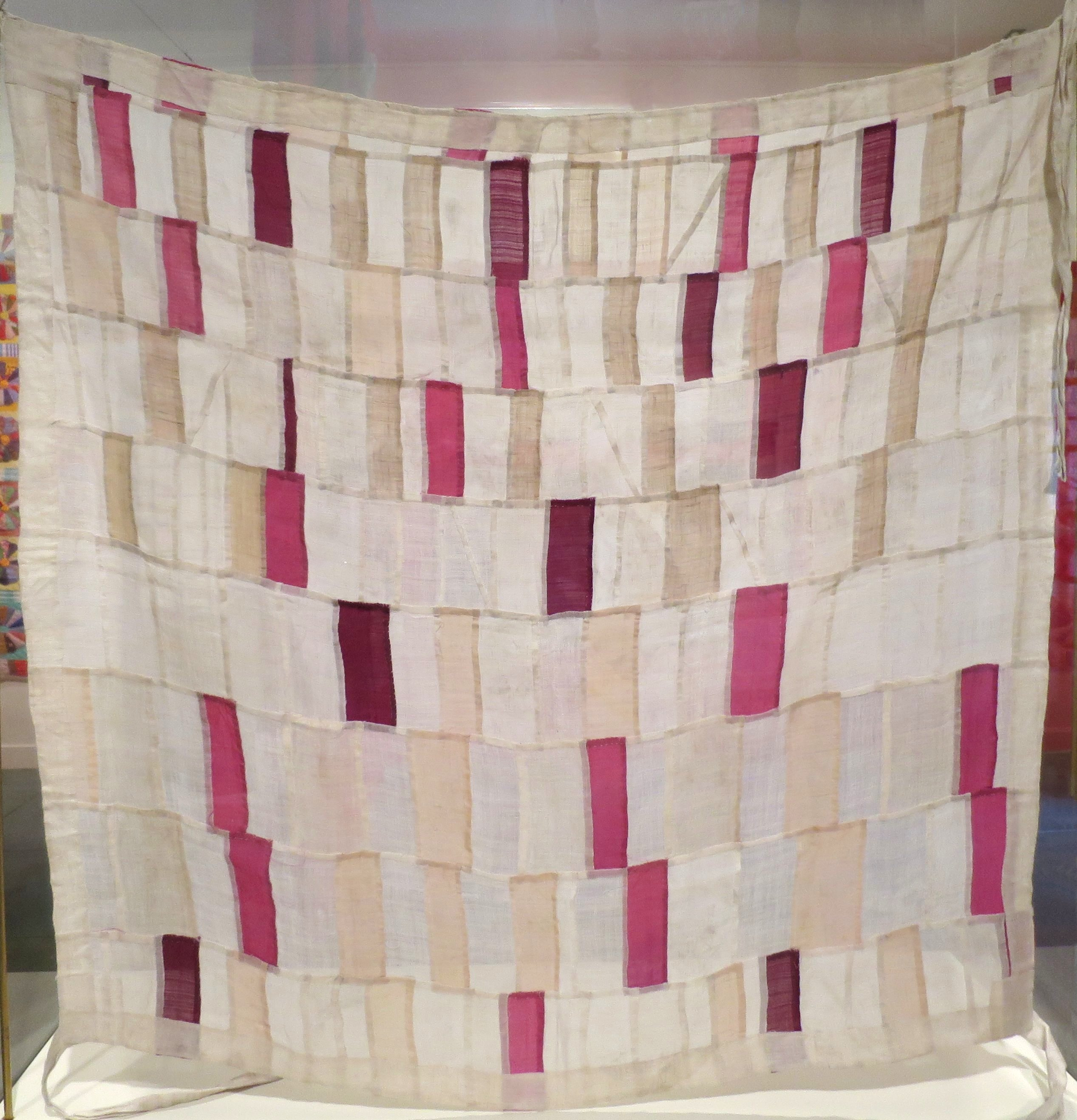 Wrapping cloth (pojagi or bojagi) from Korea, 20th century, hemp, plain weave, hand-stitching, gekki (triple-stitch seam) construction, Honolulu Museum of Art, accession 13784.1